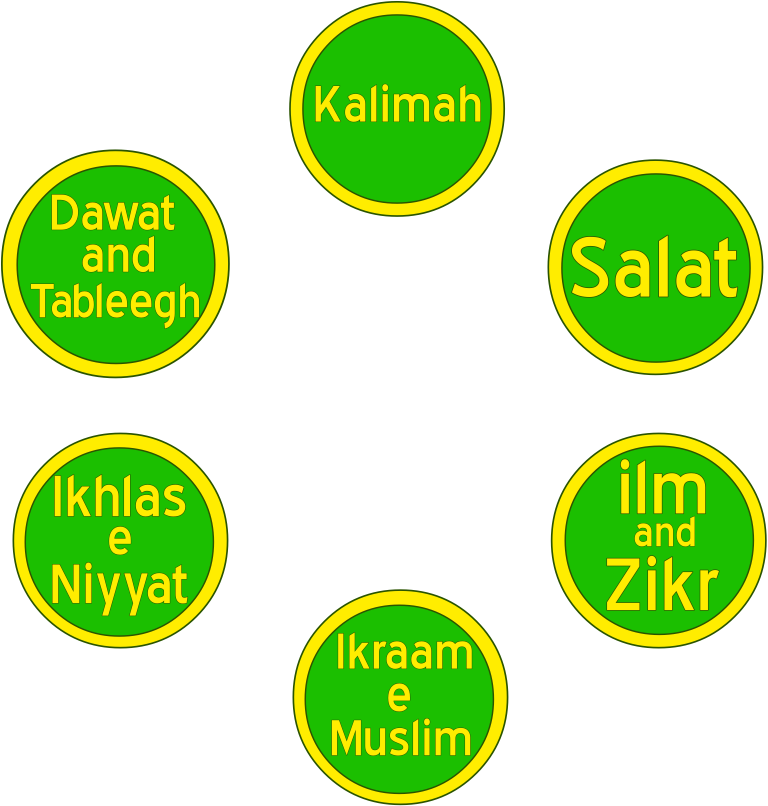 Six principles of Tabligh Jamaat 1 Kalimah: "Imaan" 2 Salat: "Prayer 3. ilm and Zikr: "The knowledge and remembrance of Allah" 4 Ikraam-e-Muslim: "Honoring a Muslim , 5 Ikhlas-e-Niyyat: "Sincerity of Intention , Dawat-o-Tableegh (Dawah): "Inviting and Preaching"